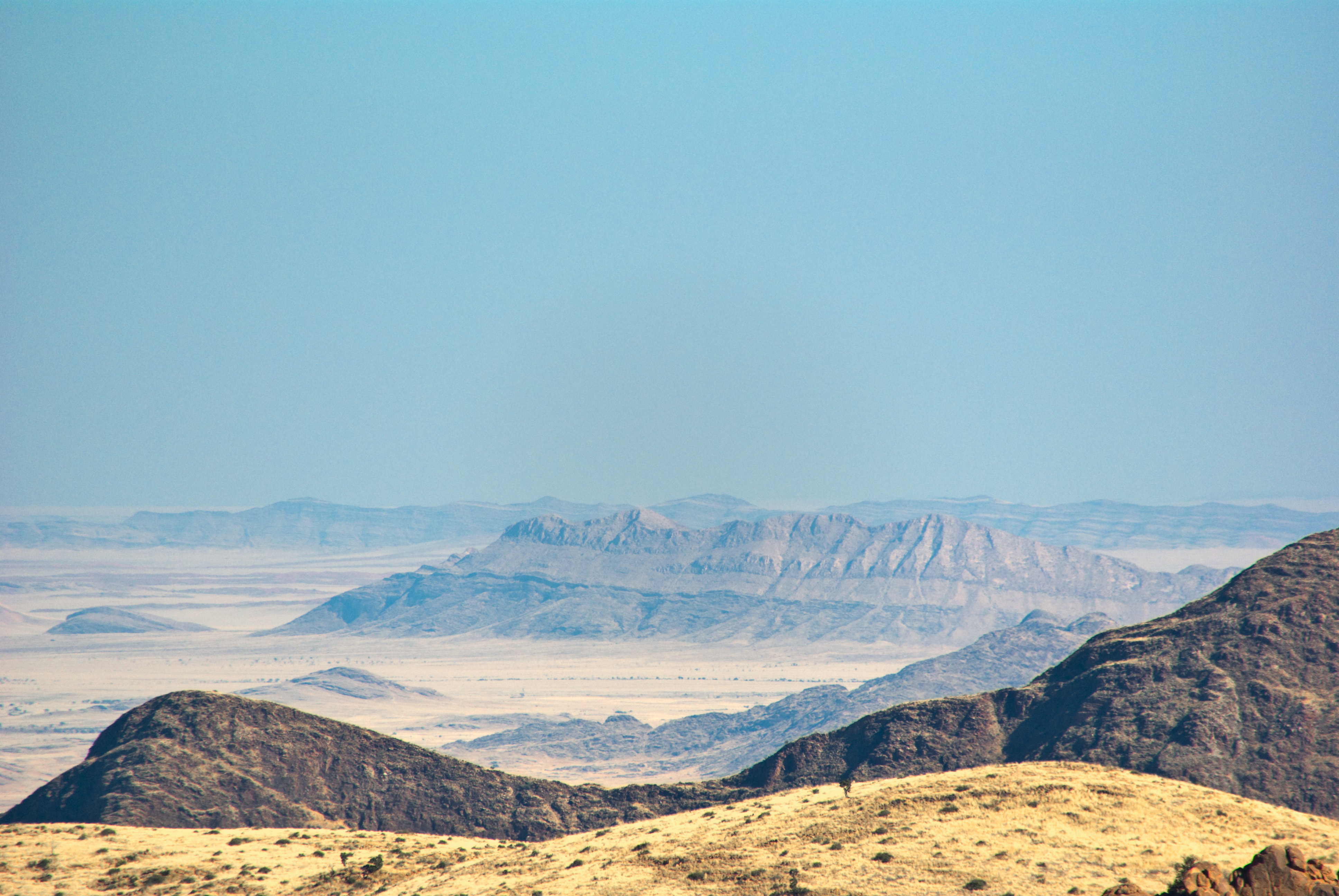 The Great Escarpment seen from Spreetshoogte Pass in western Namibia, southern Africa